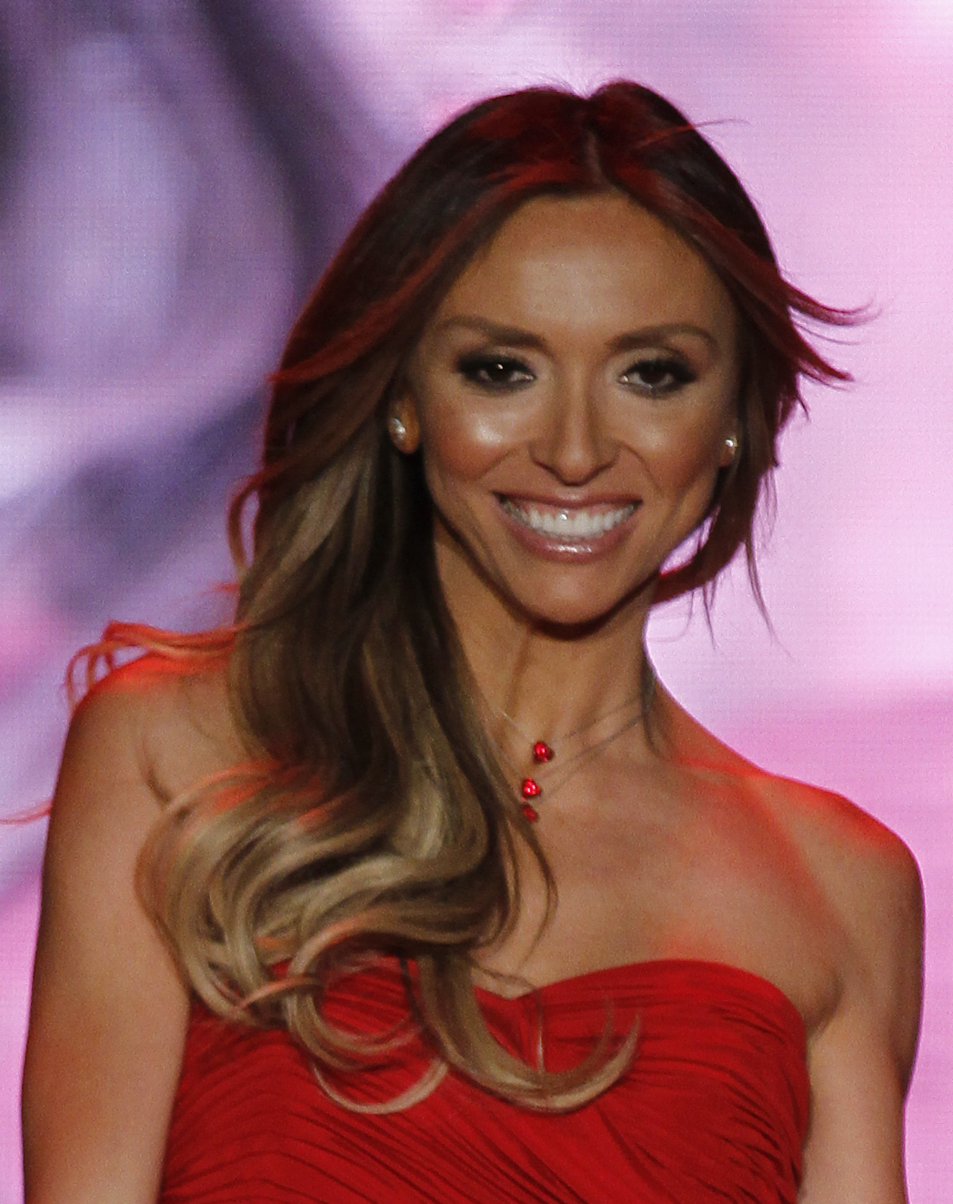 Giuliana Rancic in Notte by Marchesa